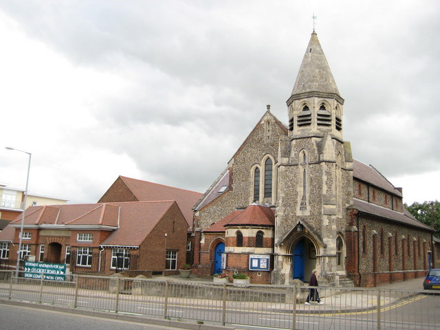 Holy Trinity parish church, Walton Road, Aylesbury, Buckinghamshire, seen from the southwest. The church was built in 1845. To the left is Walton Parish Hall.